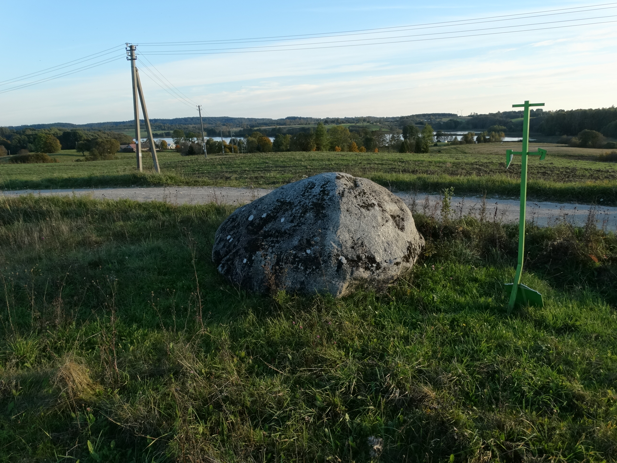 Stone in Žydiškės, Kaišiadorys district, Lithuania